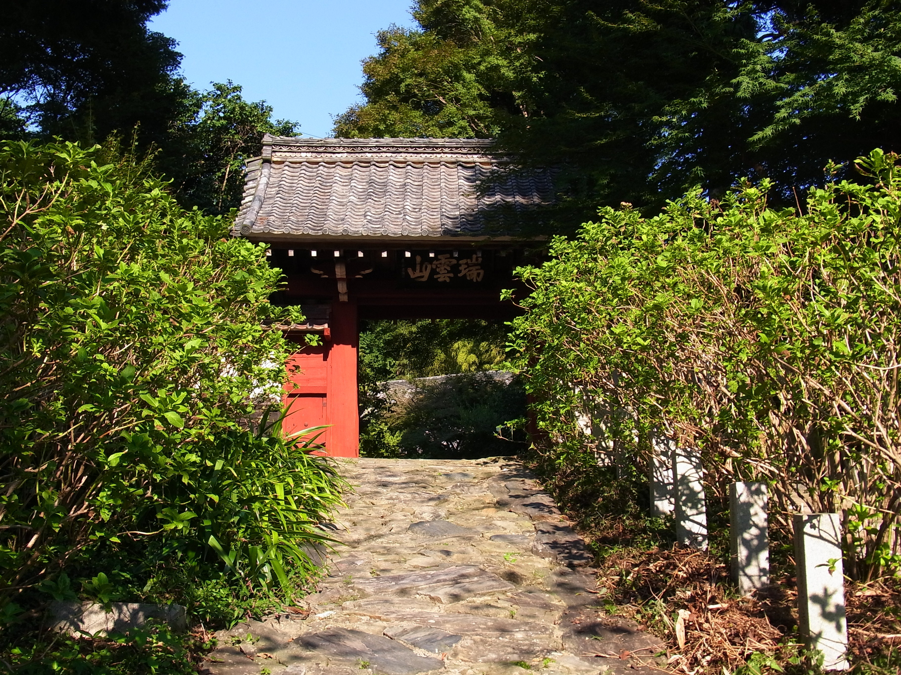 Sando of Honkoji in Kota town, Aichi prefcture, Japan.